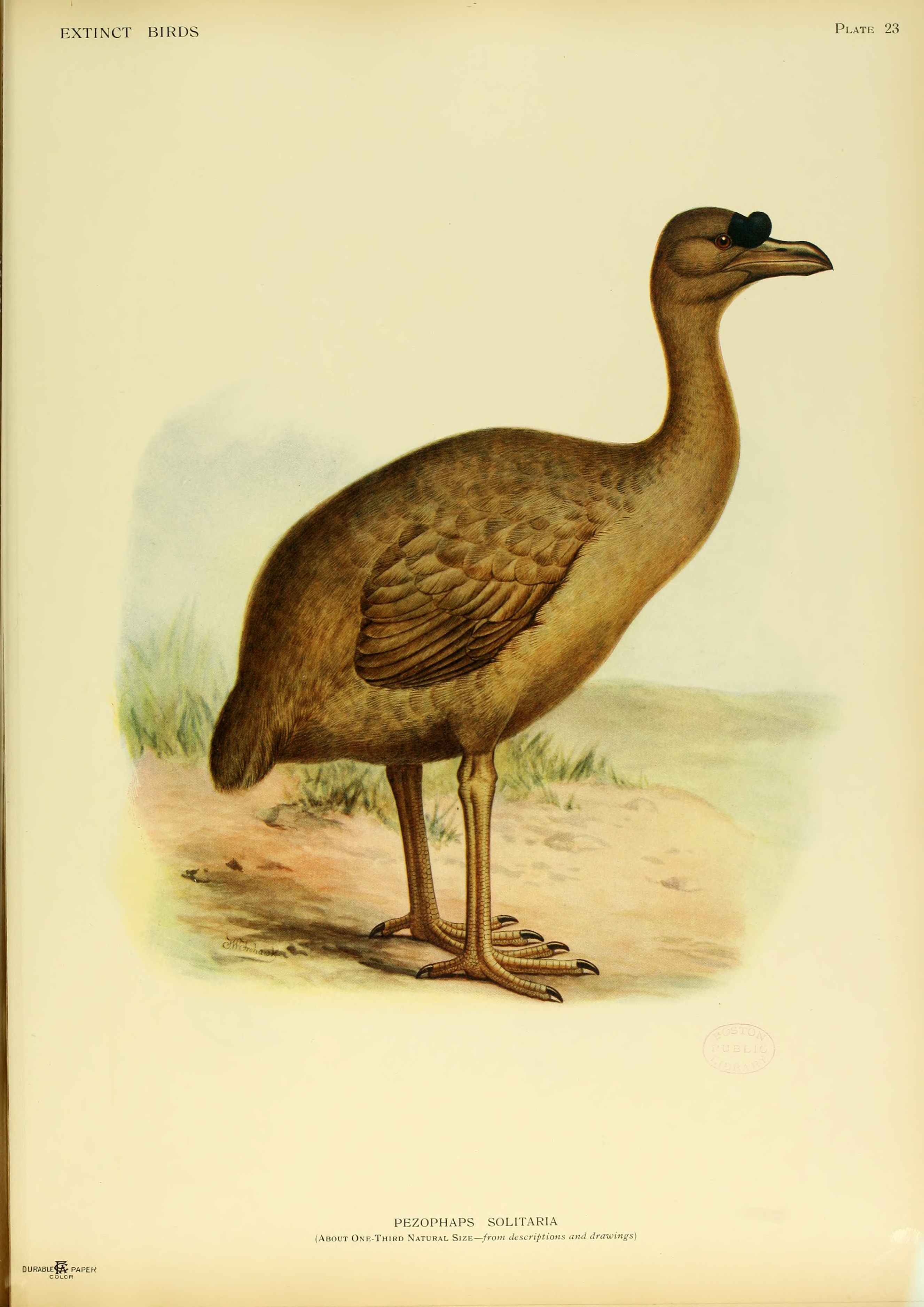 The Rodrigues Solitaire (Pezophaps solitaria) was a flightless member of the pigeon order endemic to Rodrigues, Mauritius. It was a close relative of the Dodo. The image is a coloured drawing made from Leguat's description and figure.